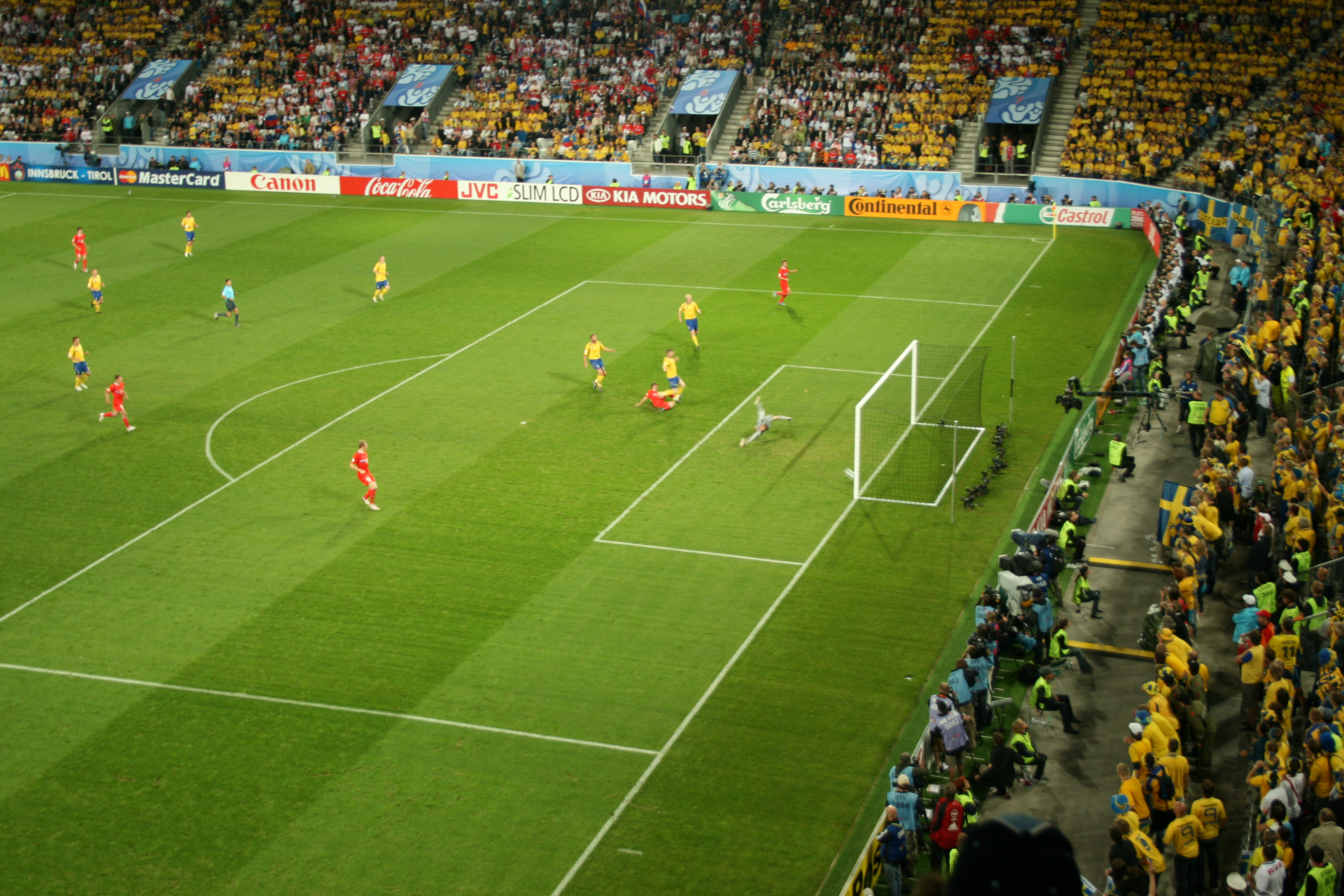 Arshavin scores (EURO 2008. Russia Sweden 2:0. 18th June 2008)